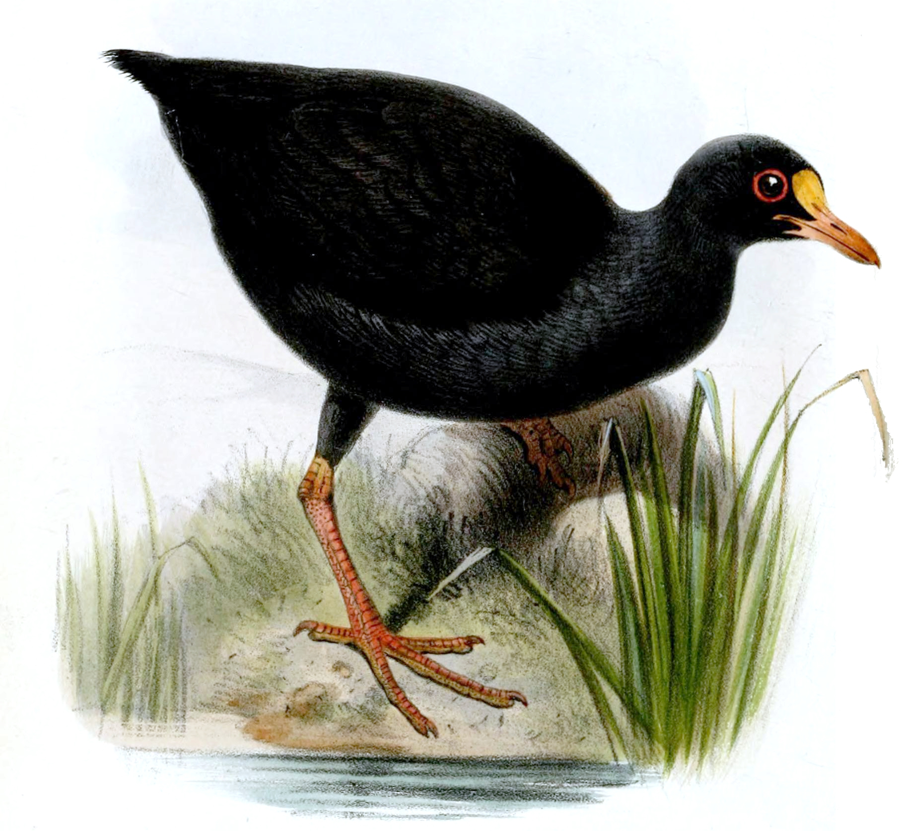 Pareudiastes pacificus =Gallinula pacifica, Plate.II from On a Collection of Birds from Savai and Rarotonga Islands in the Pacific.